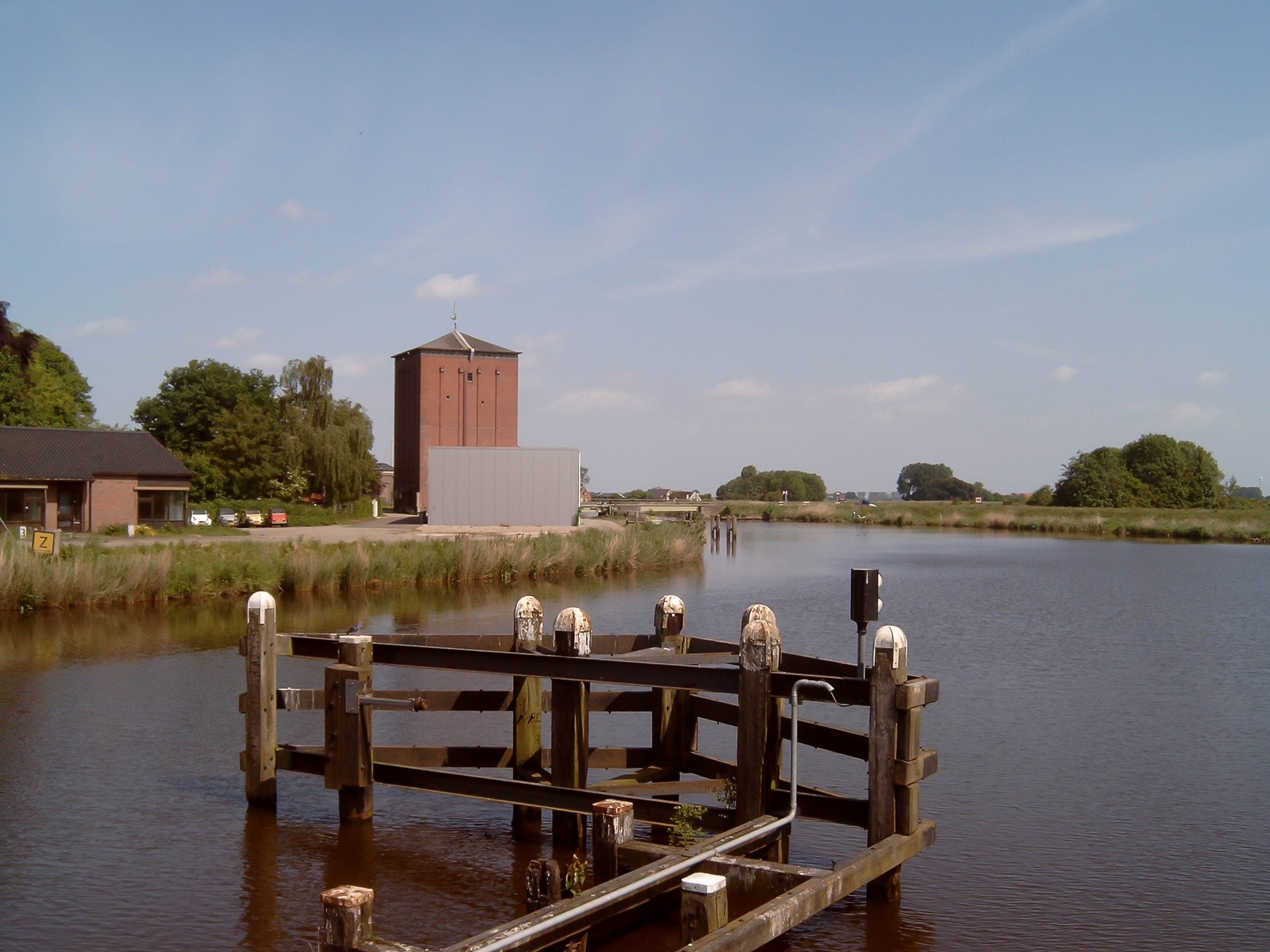 Nieuweschans, view to Westerwoldse Aa